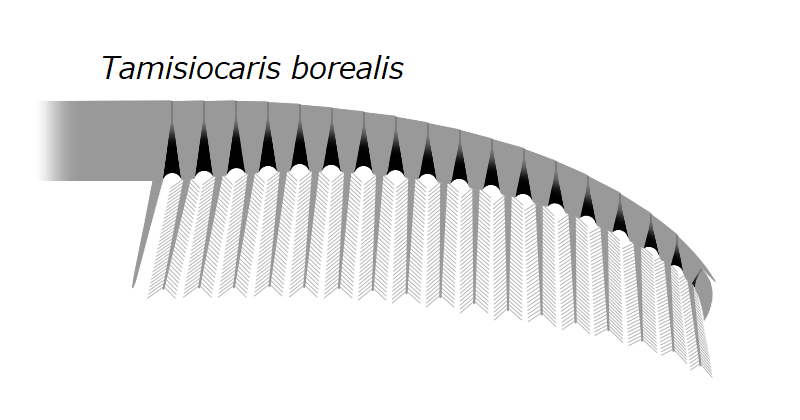 Frontal appendage of the radiodont species Tamisiocaris borealis. Total mumber of podomere is tentatively reconstructed as (at least) 18.